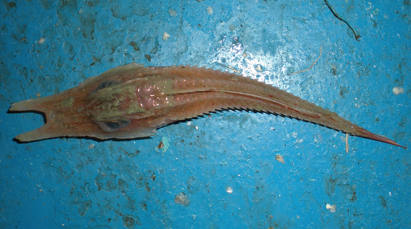 Peristedion cataphractum collected near Apulia coast (southern Italy). Photo by Enrico Ricchitelli.